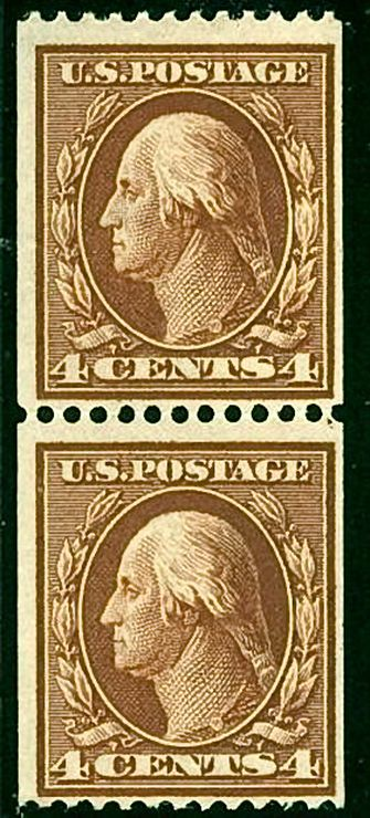 US Postage stamp, Washington-Franklin coil pair, 1908 issue, 4c, brown